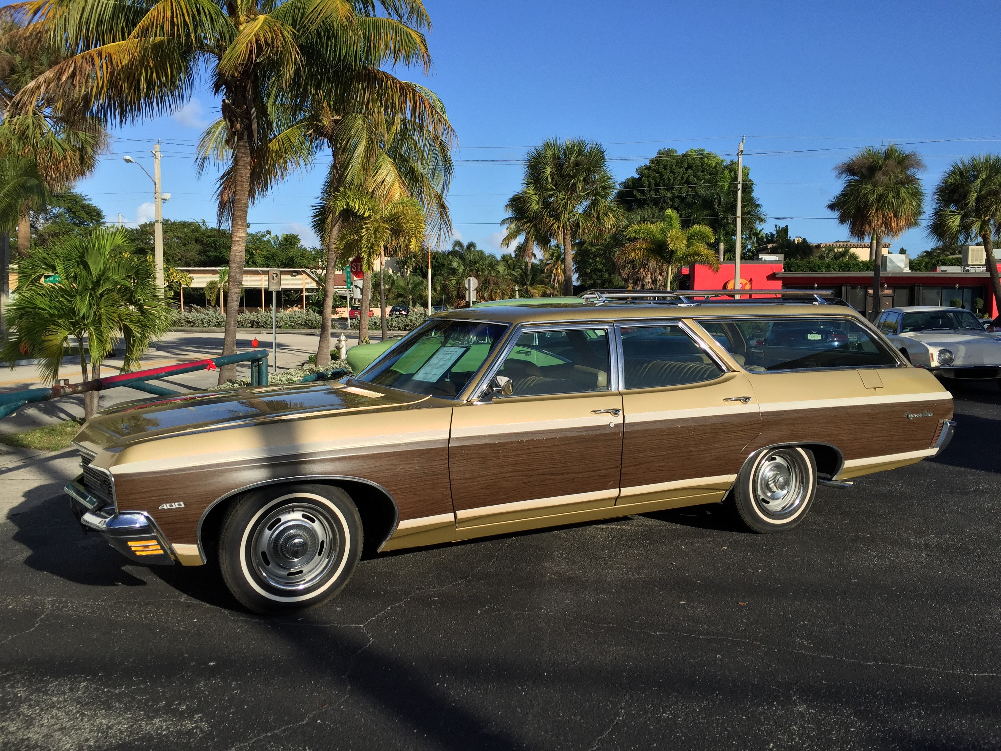 1970 Chevrolet Kingswood Estate. A surviving original factory condition four-door station wagon with three rows of seats, with the rearmost one facing backwards. Finished in beige with woodgrain paneling trim on bodysides and tailgate. This car also has the optional 400 CID (6.55 L) V8 engine.